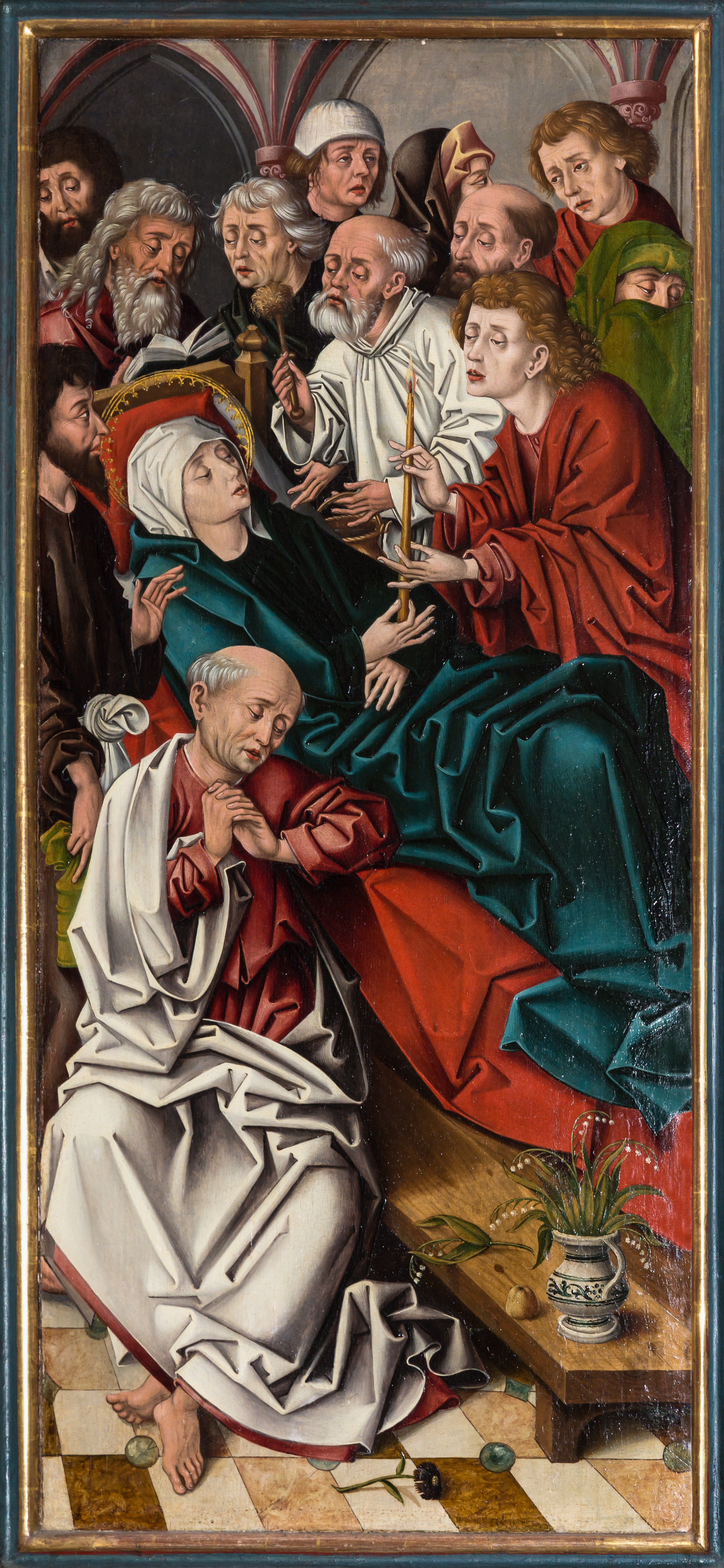 Right wing of the predella of the Bäckeraltar (altar of the bakers)